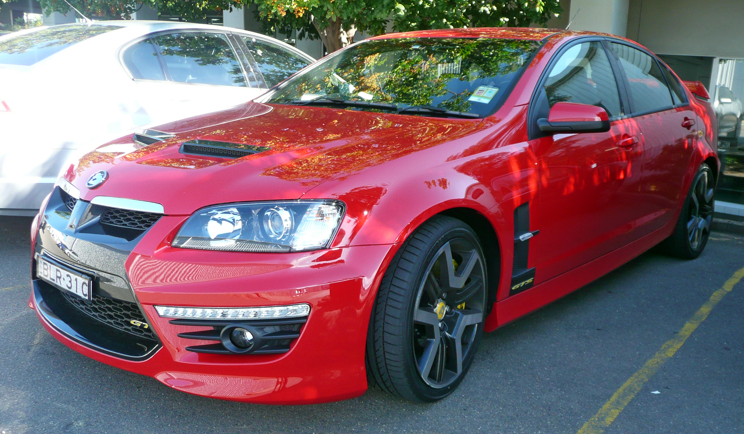 2009 HSV GTS (E Series 2 MY10) sedan. Photographed at McGrath Sutherland Holden, Kirrawee, New South Wales, Australia.